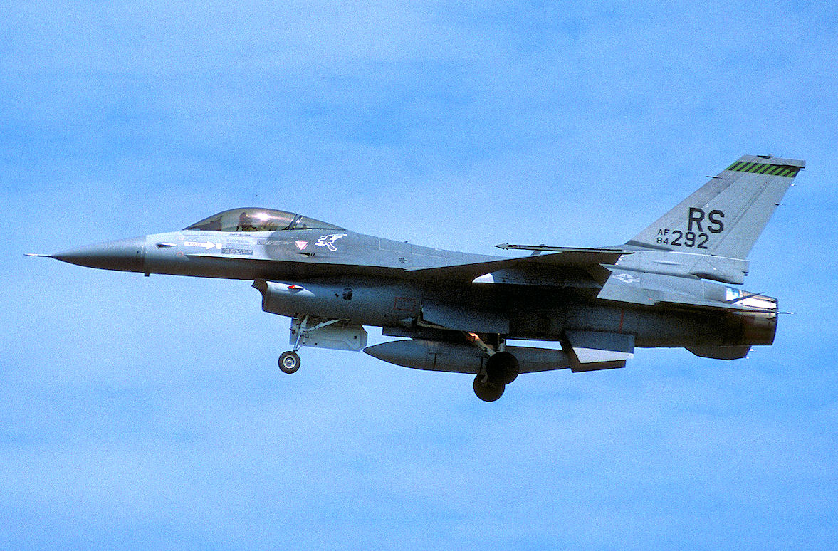 512th Fighter Squadron - General Dynamics F-16C Block 25E Fighting Falcon - 84-1292